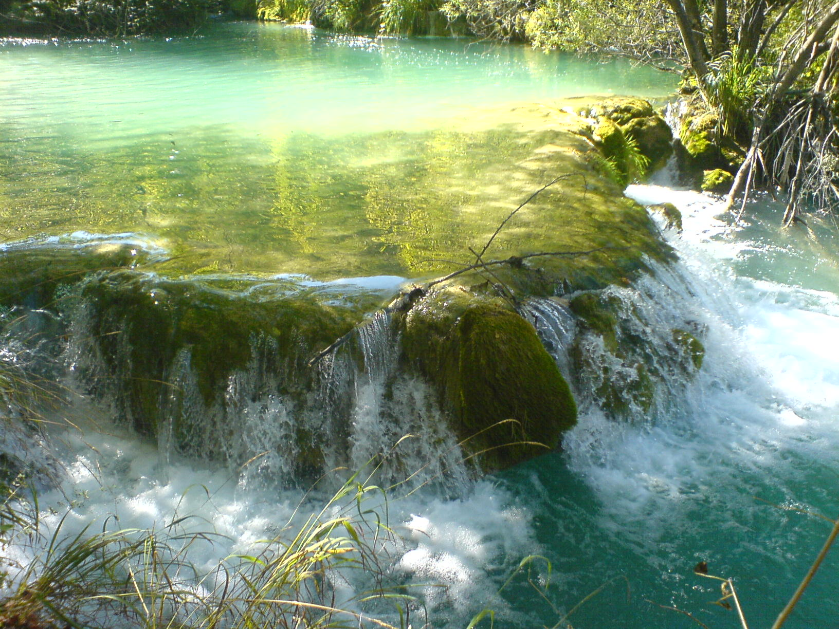 Plitvice Lakes National Park, Croatia